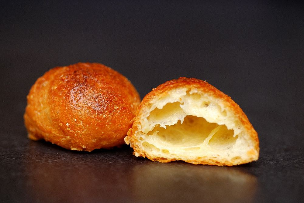 Traditional French gougères as explained on - an easy recipe provided you follow the instructions step by step. Good luck if you try this and I wish you as much fun as I had when cooking and shooting these gougères.